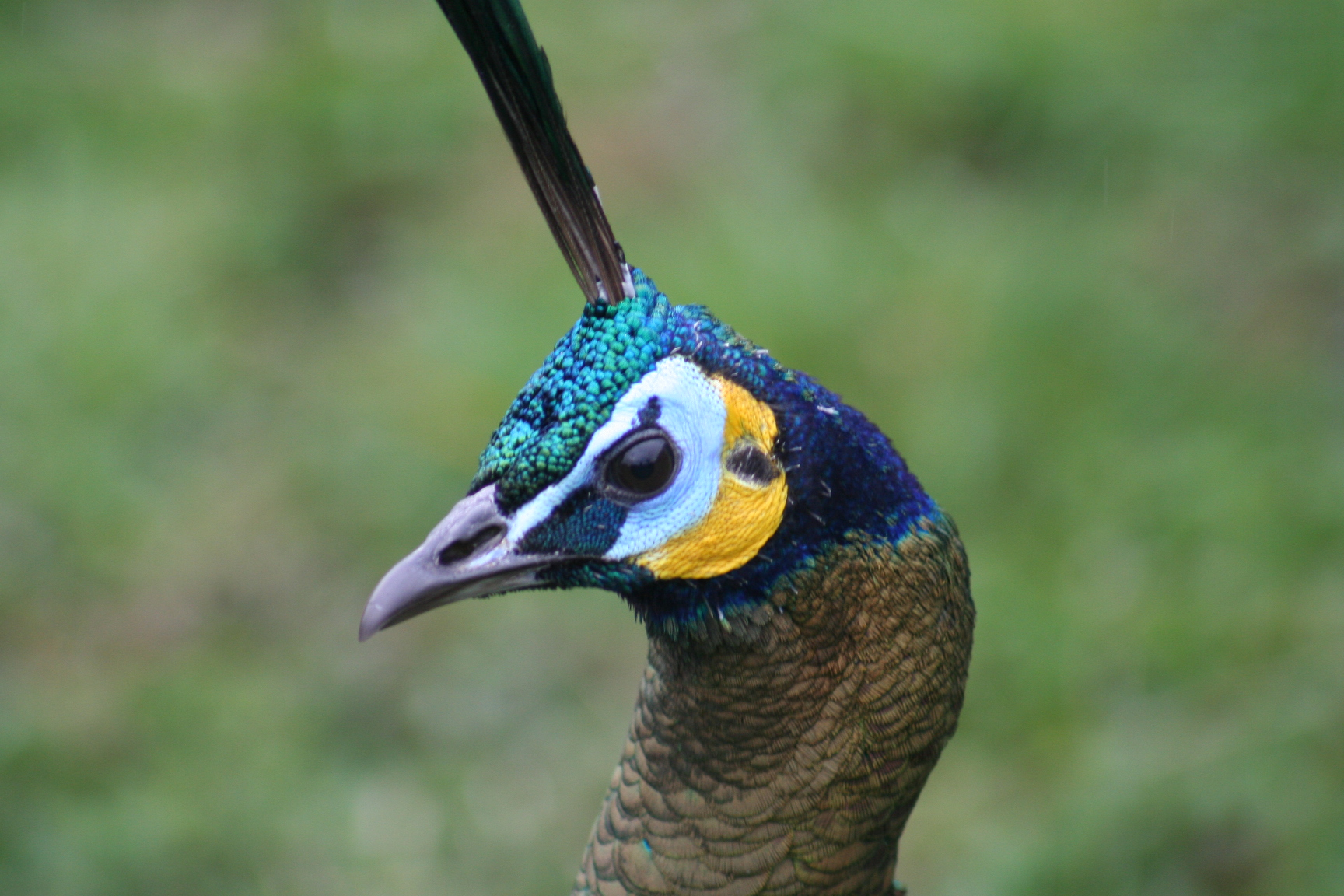 Pavo muticus imperator male